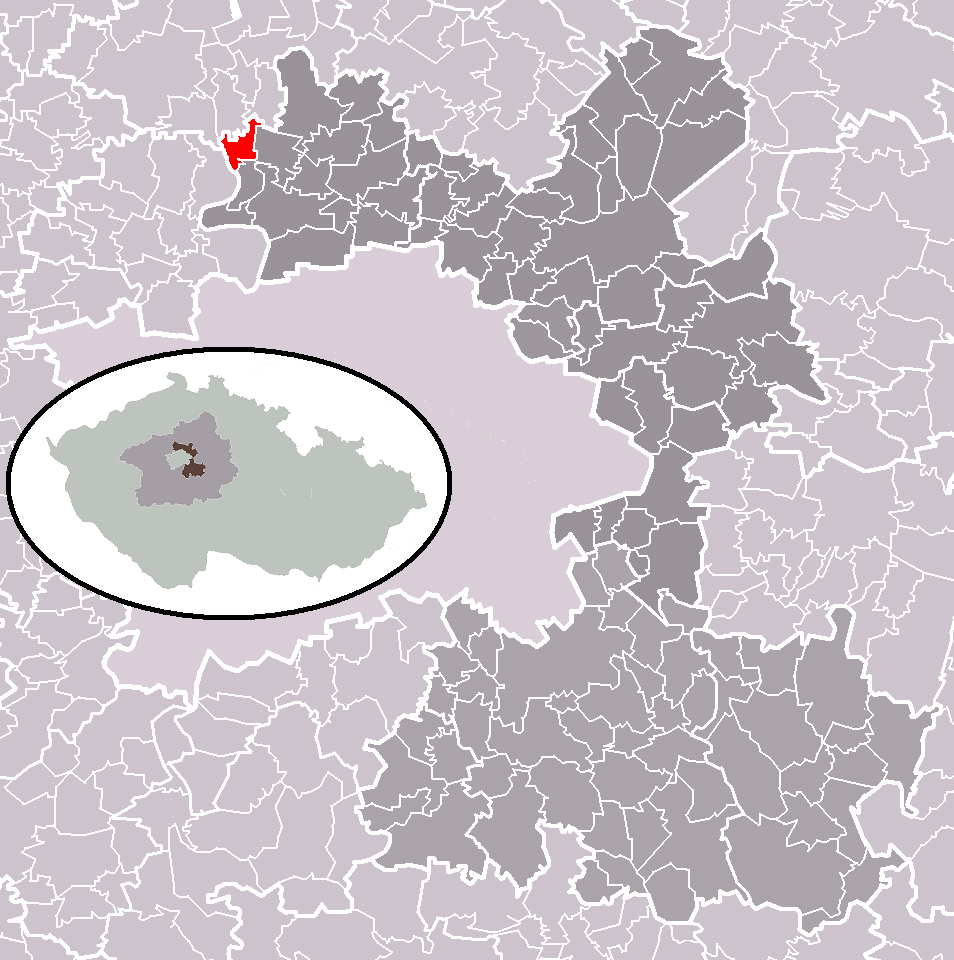 Location of Máslovice municipality within Prague-East District and administrative area of Brandýs nad Labem-Stará Boleslav as a Municipality with Extended Competence.